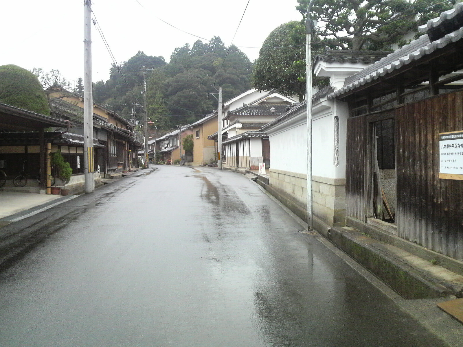 Yosano-town, Kyoto Prefecture